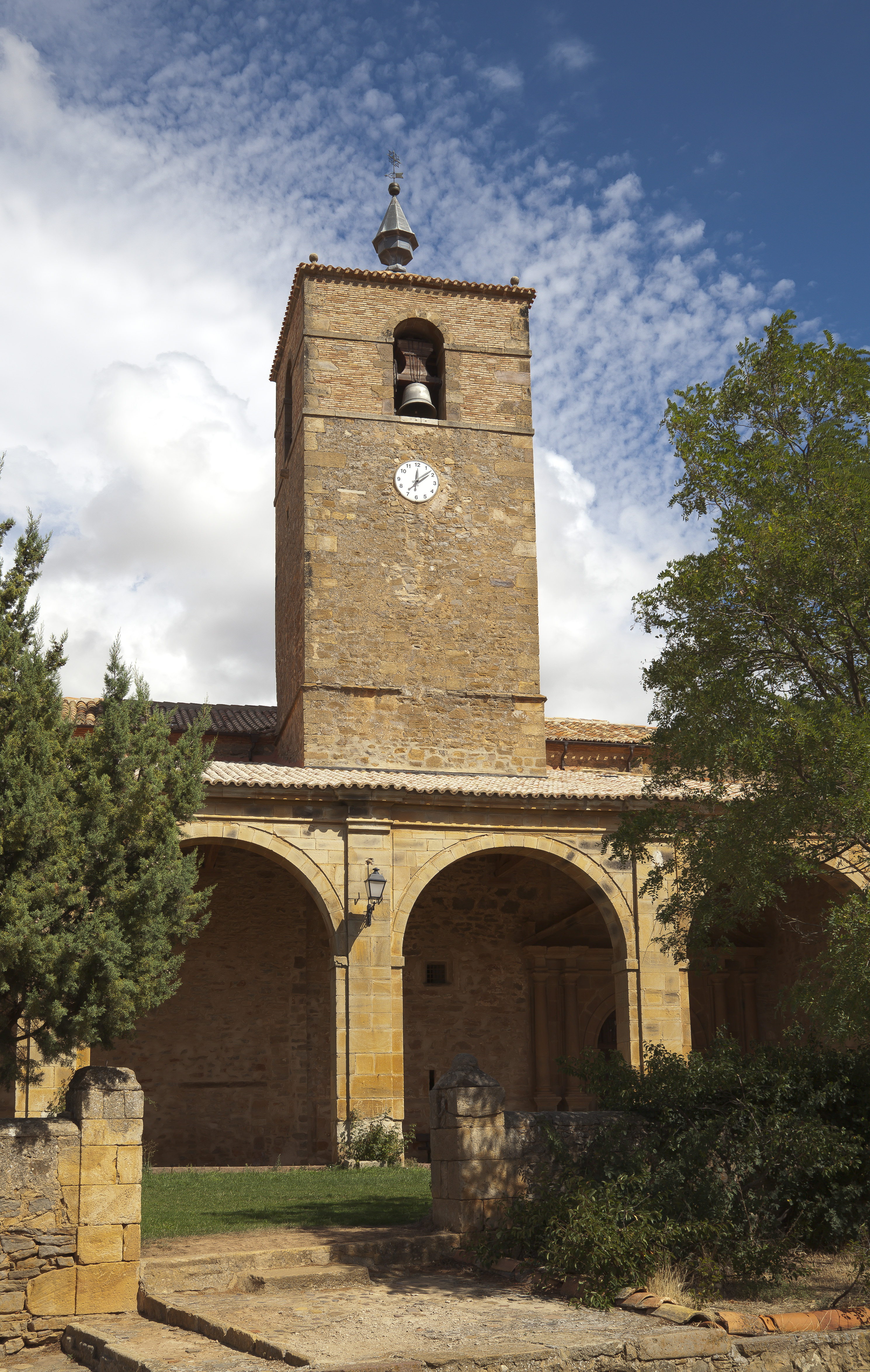 Church of the Saints Justo and Pastor, Noviercas, Spain